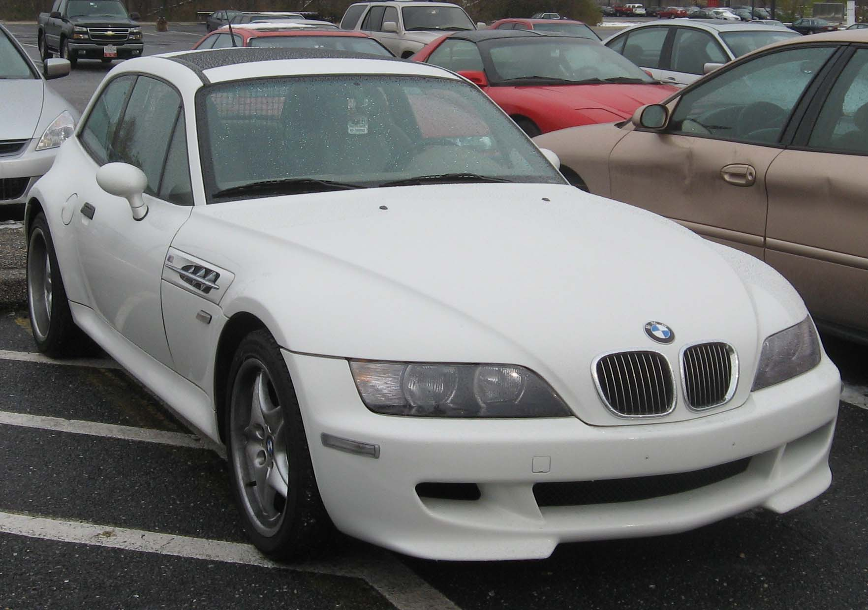 BMW M photographed in College Park, Maryland, USA.